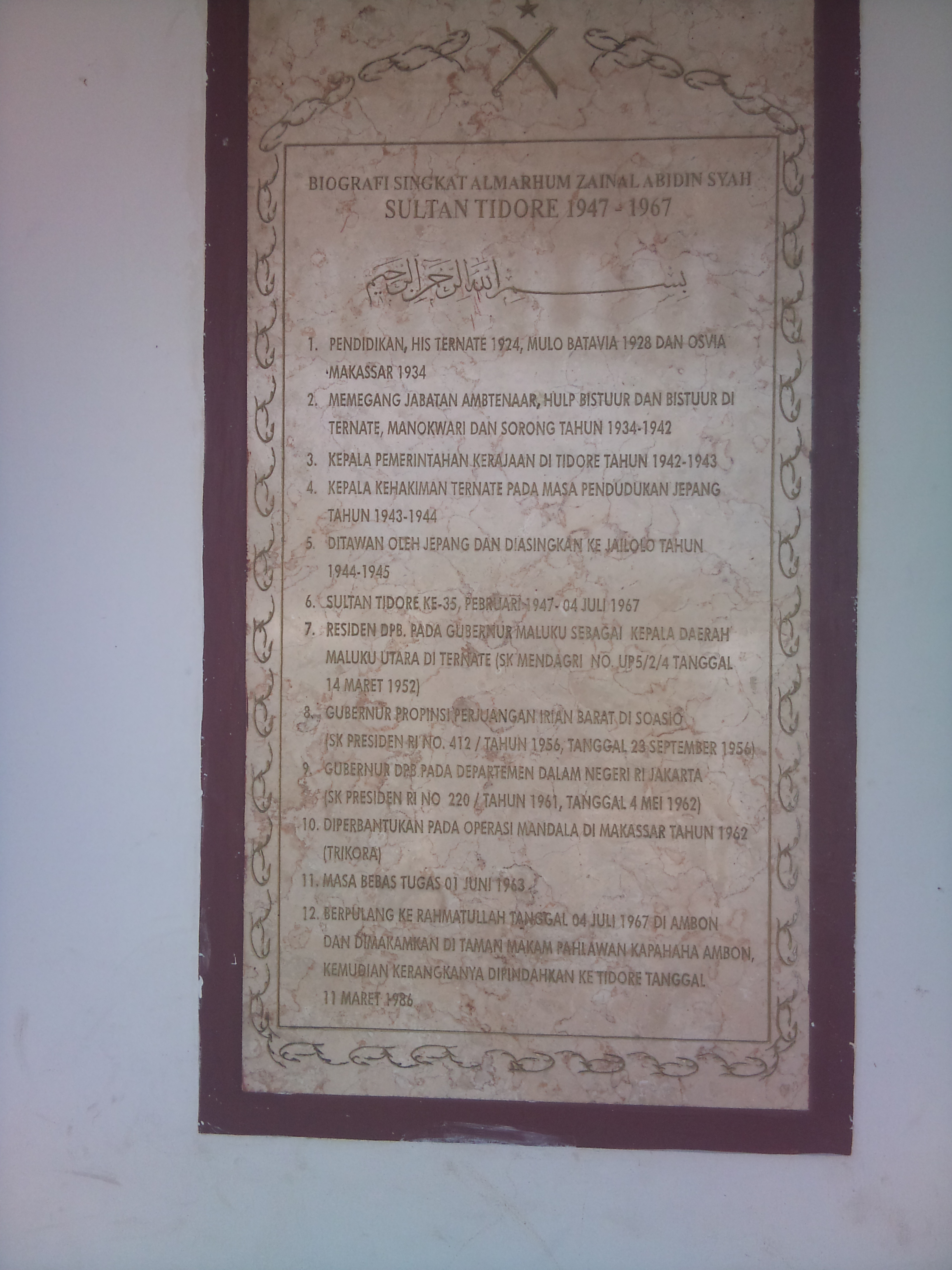 Plaque with biographical data of Sultan Zainal Abidin Alting of Tidore, palace area, Tidore.